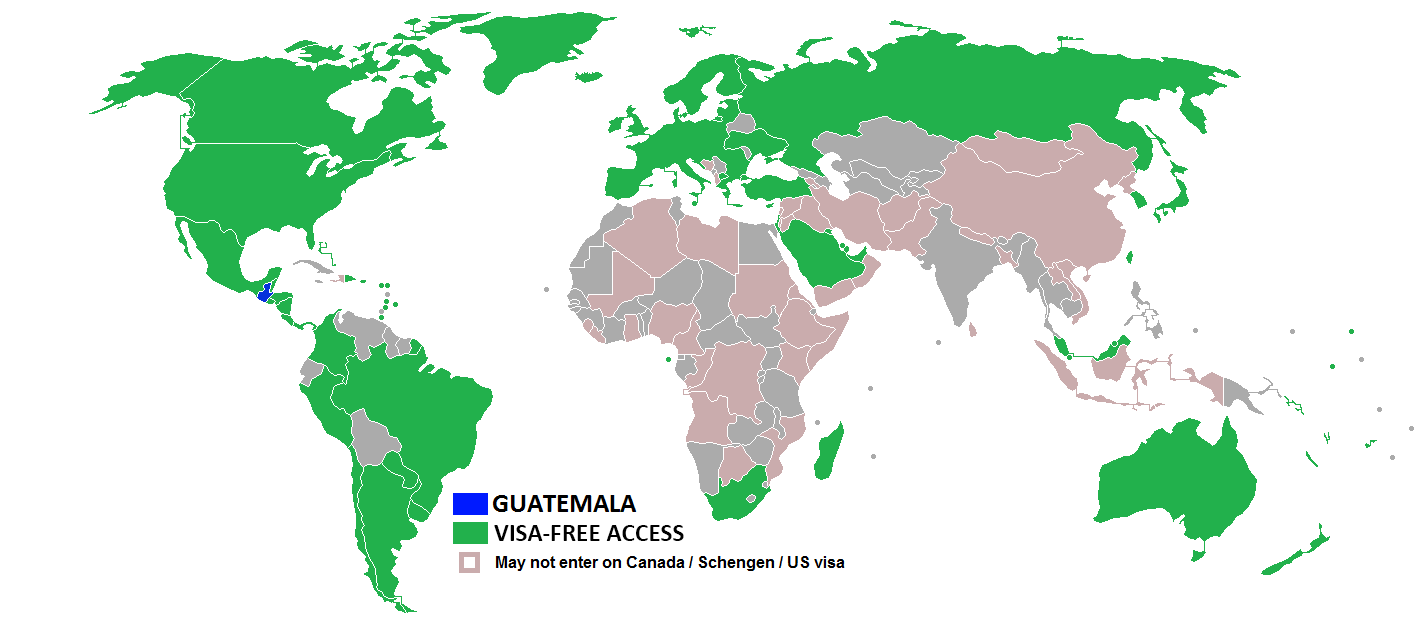 Visa policy of Guatemala Guatemala Visa-free access to Guatemala May not enter on Canada/Schengen/US visa